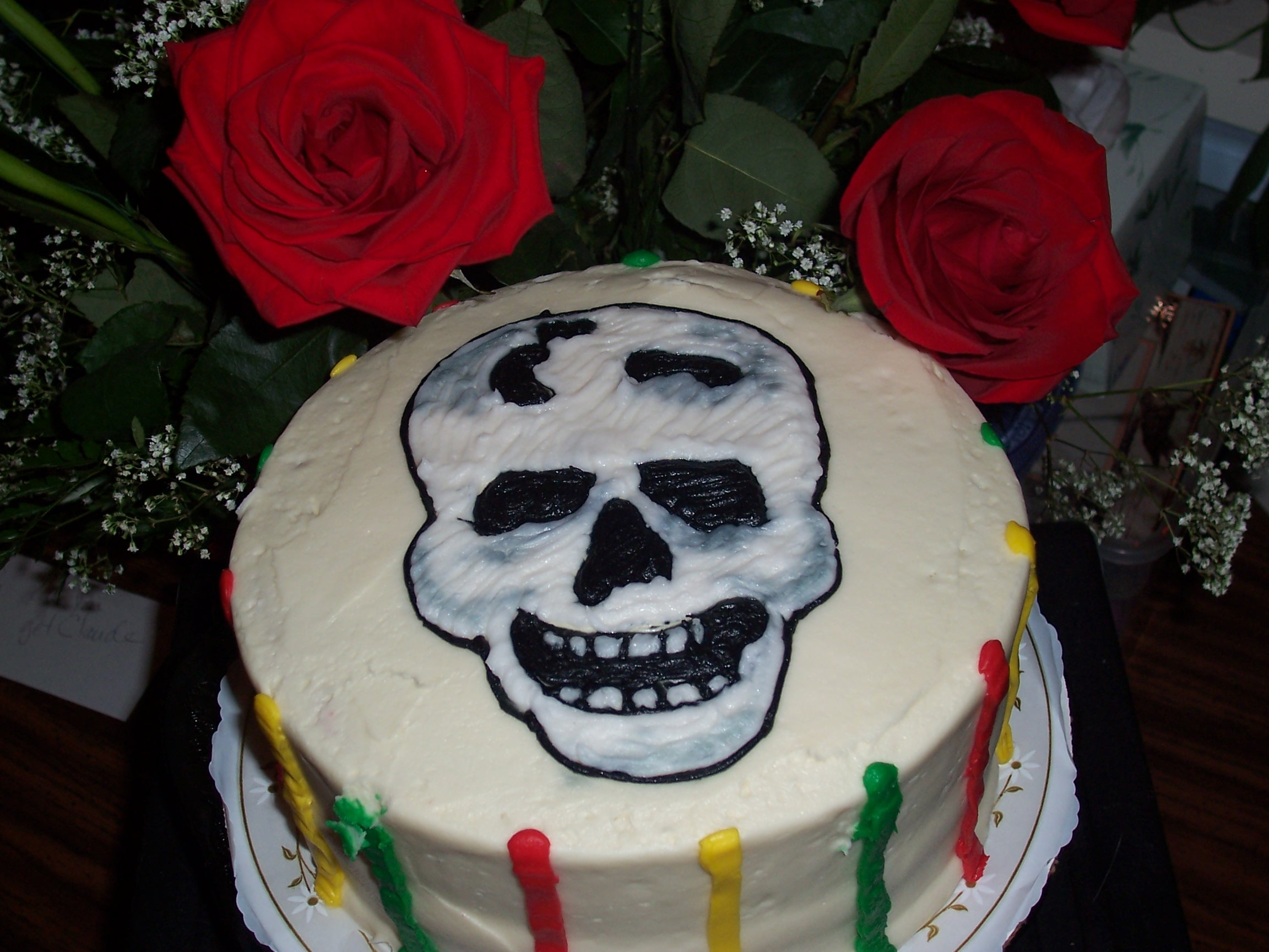 Day of the Dead cake This is the traditional anniversary cake for Mr. and Mrs. Raccoon. When I called the bakery to make my order last week, the woman said, "Oh, yeah! I thought it was that time of the year." It's nice to be known by the cake you order. It's important to note that the cake is Red Velvet, a blood-red chocolate. Shout-out to Janet's Cakes and Catering on Market Street.